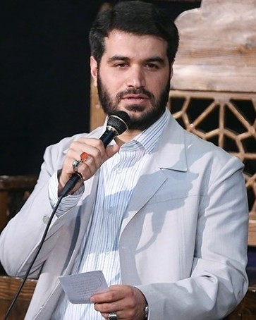 Meysam Motiee in Weekly rituals of unknown martyrs